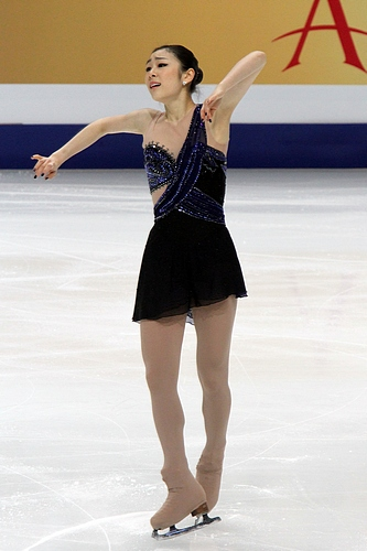 Kim 2011 World Championship SP